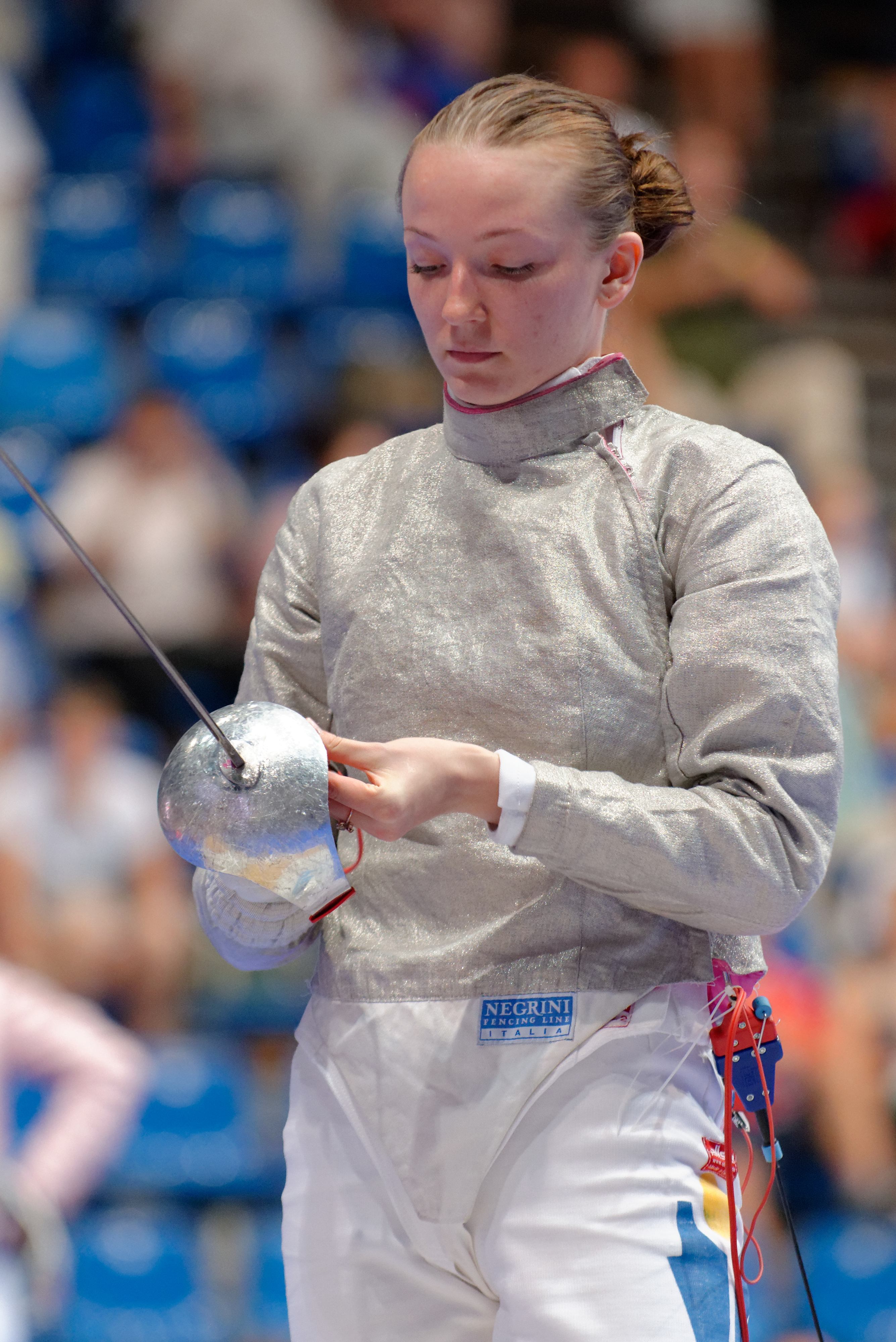 Kazhakstan's Yuliya Zhivitsa at the women's sabre event of the 2013 World Fencing Championships 2013 at Syma Hall in Budapest on 9 August 2013.